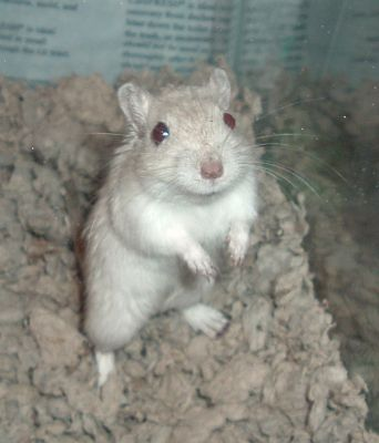 The light colorpoint agouti is an agouti gerbil that has one lightening (or himilayan) gene and a colorpoint gene. It has a white belly and black eyes.